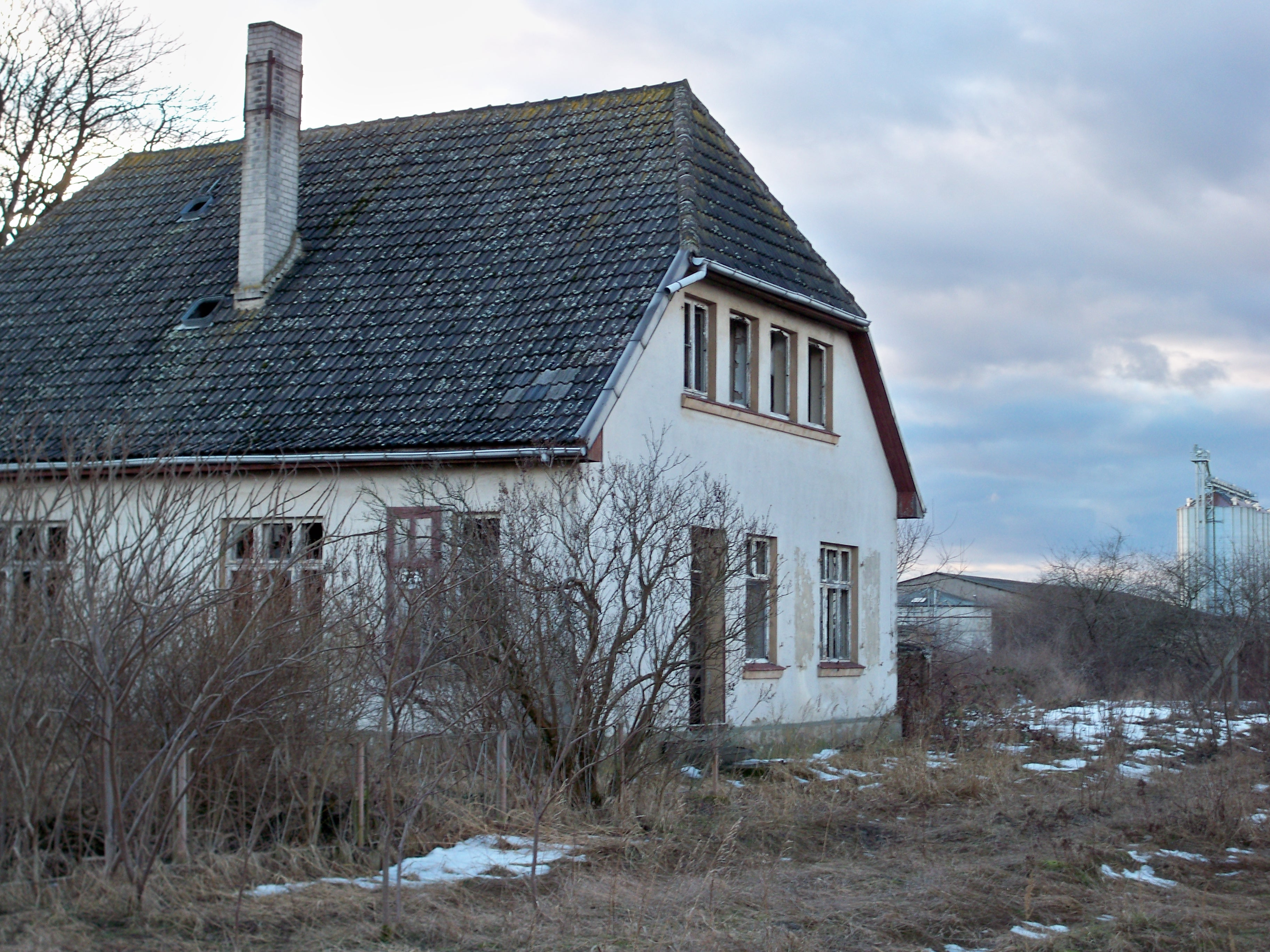 Oebisfelde Kleinbahnhof (minor railway station, disused)